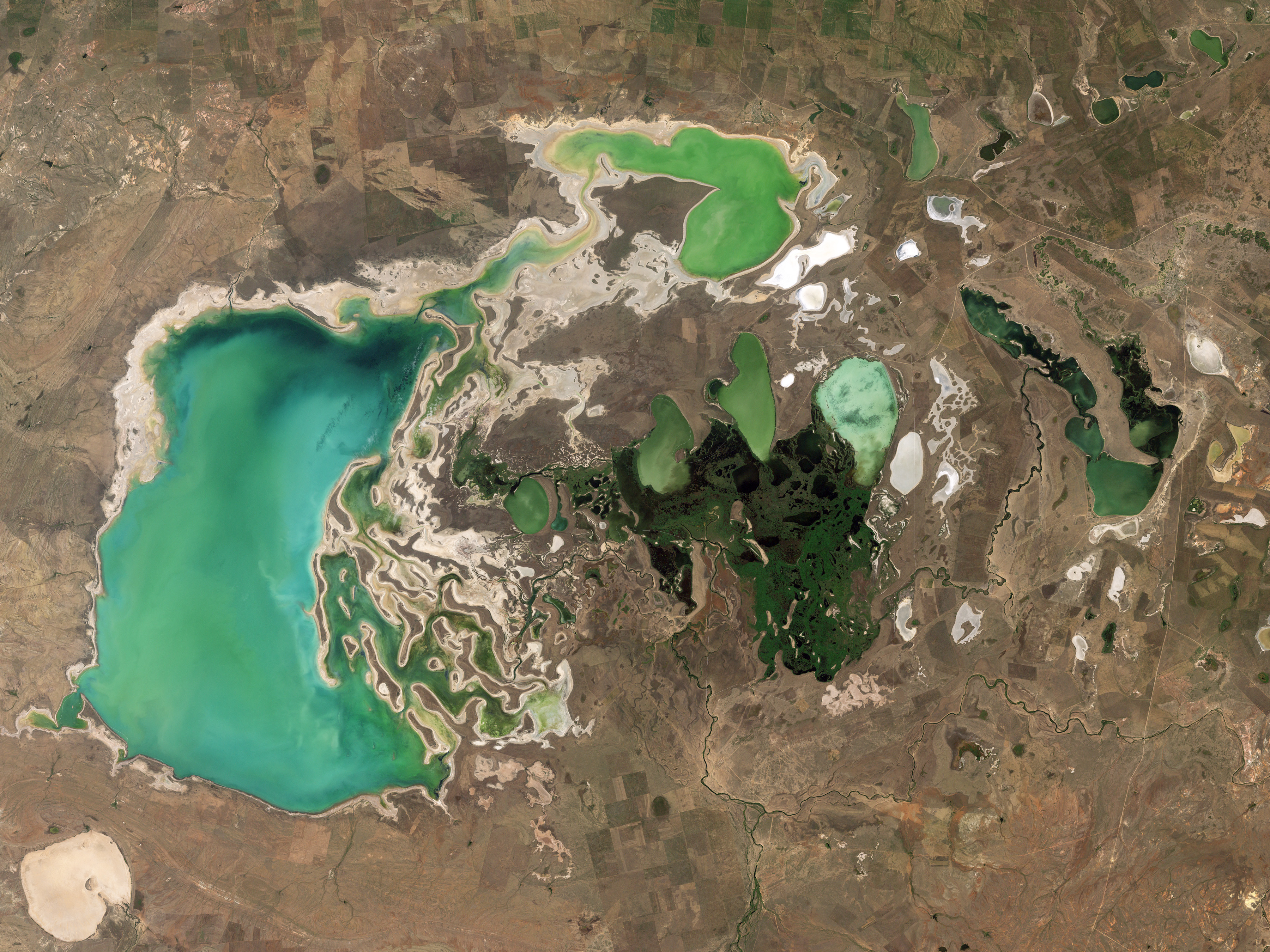 Tengiz and Korgaljinski Lakes, Kazakhstan